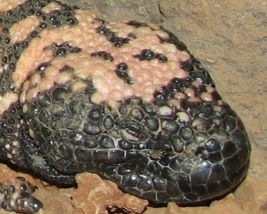 Comparison of the heads of the Gilamonster Heloderma suspectum (below) and the Mexican Beaded Lizard Heloderma horridum (above). The latter always has markings on the head, the Mexican Beaded lizard doesn't.